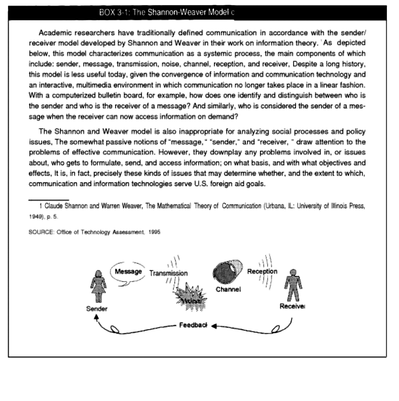 The Shannon-Weaver model as characterized by the US Office of Technology Assessment